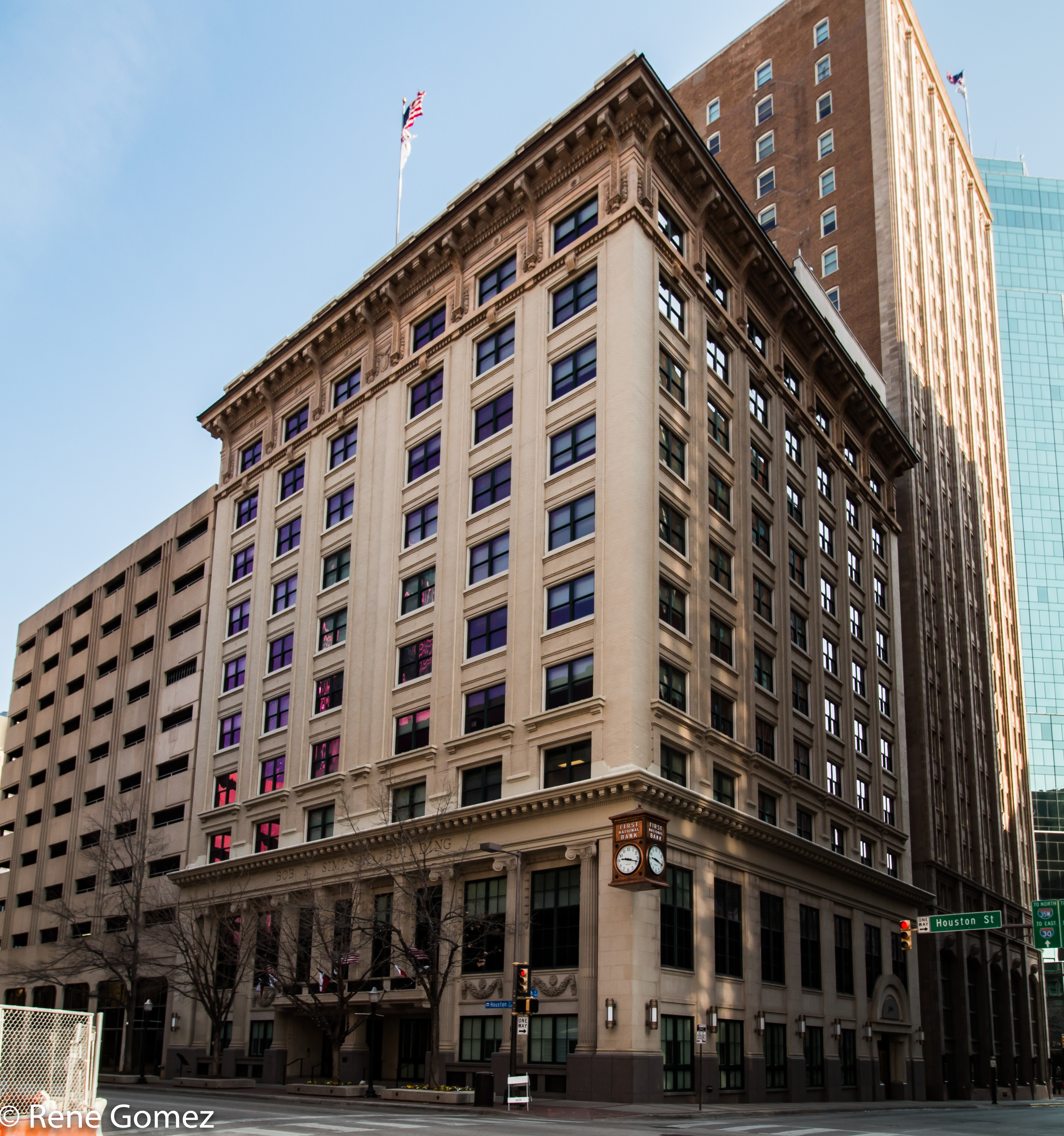 First National Bank Building in Fort Worth, Texas